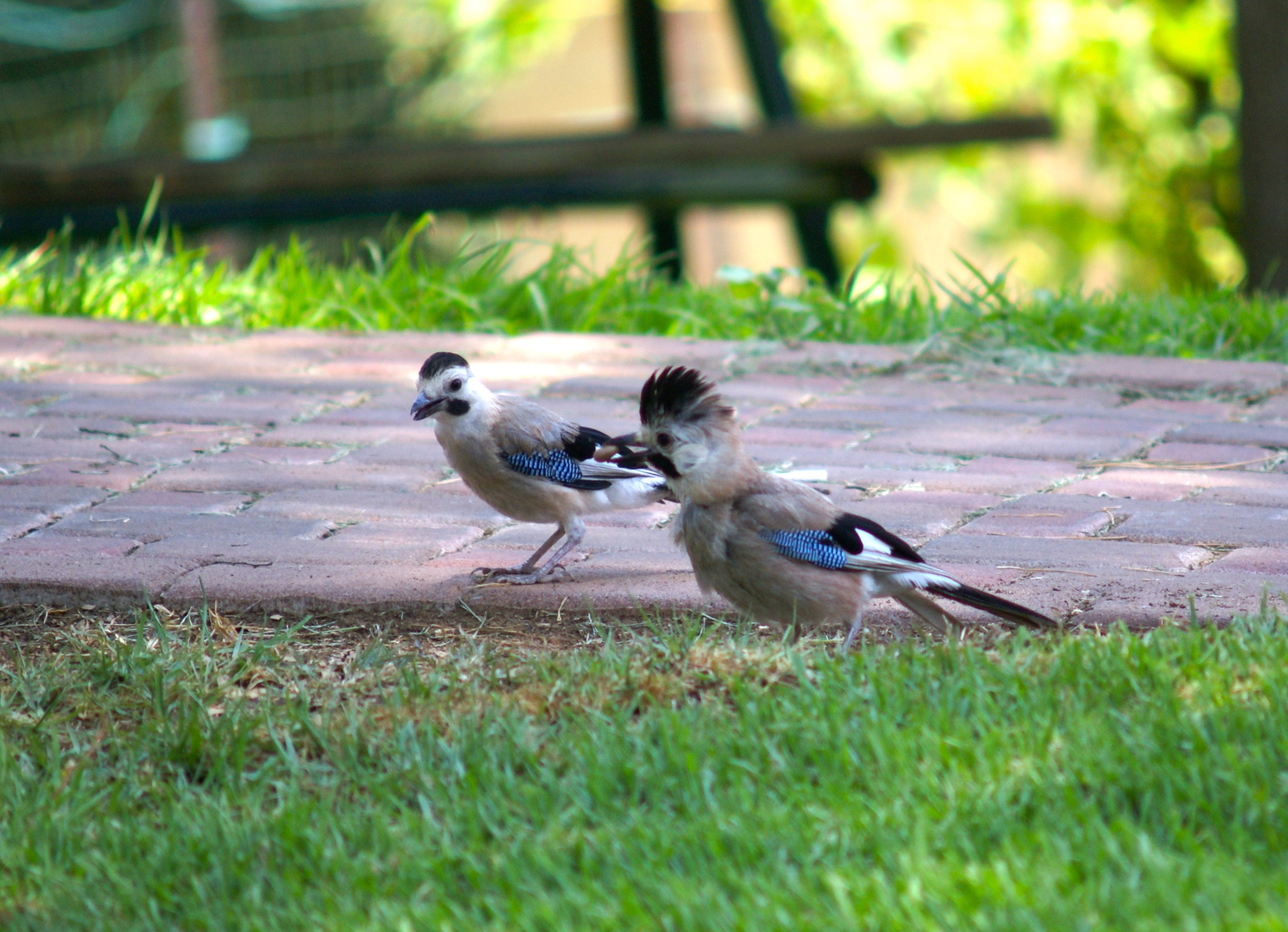 'Middle East' Eurasian Jay (Garrulus glandarius atricapillus). Shoresh